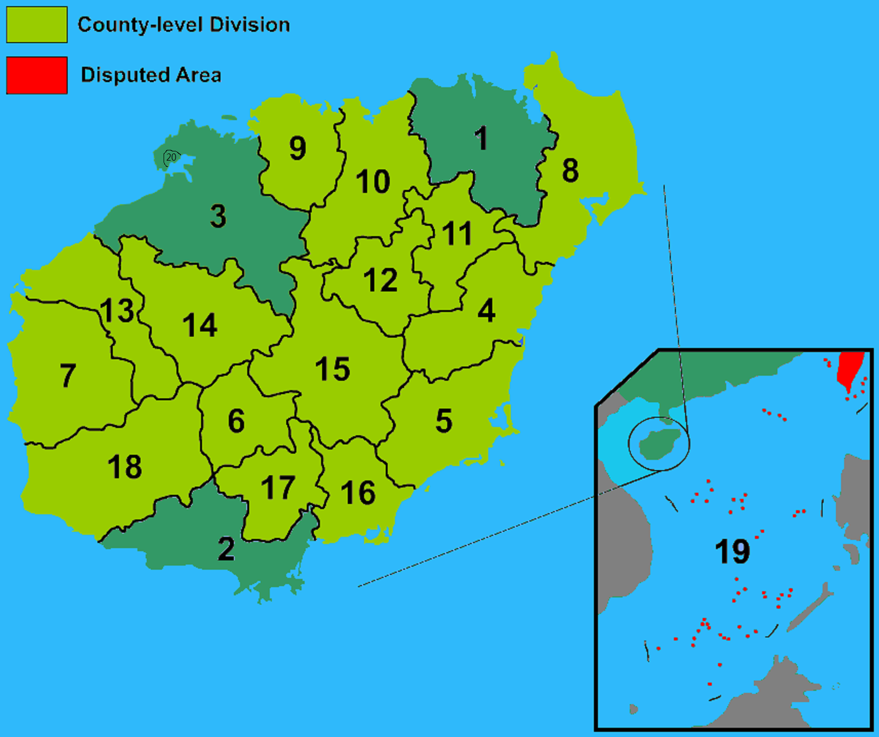 Map of prefectures of Hainan Province